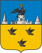 Livny (Oryol oblast), coat of arms (1781)